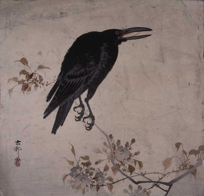 Description: Raven (?) by an unknown Japanese artist, from the collection of Sir Charles Jenkinson. Date: Unknown Our Catalogue Reference: PRO 30/75/168 This image is from the collections of The National Archives. Feel free to share it within the spirit of the Commons. For high quality reproductions of any item from our collection please contact our image library.